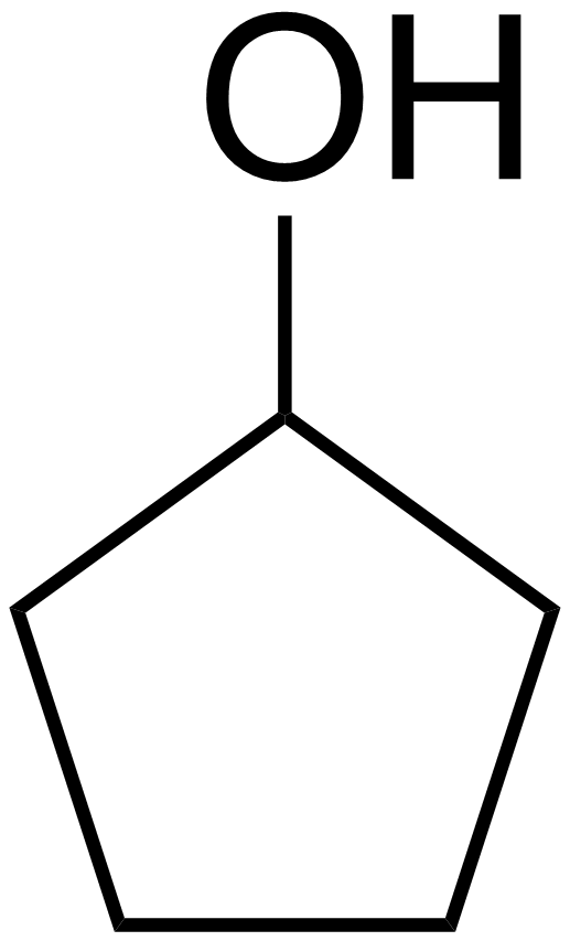 Chemical structure of cyclopentanol